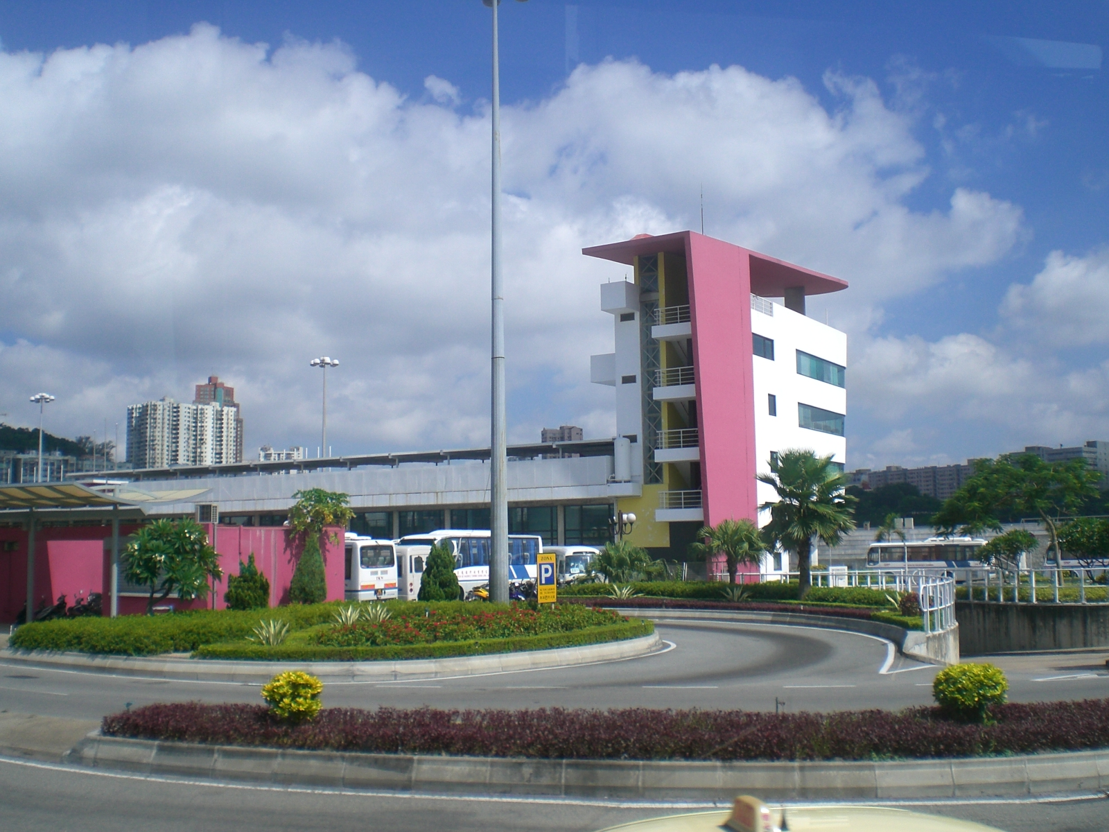 Grand Prix Stand locates near Macau Ferry Pier.